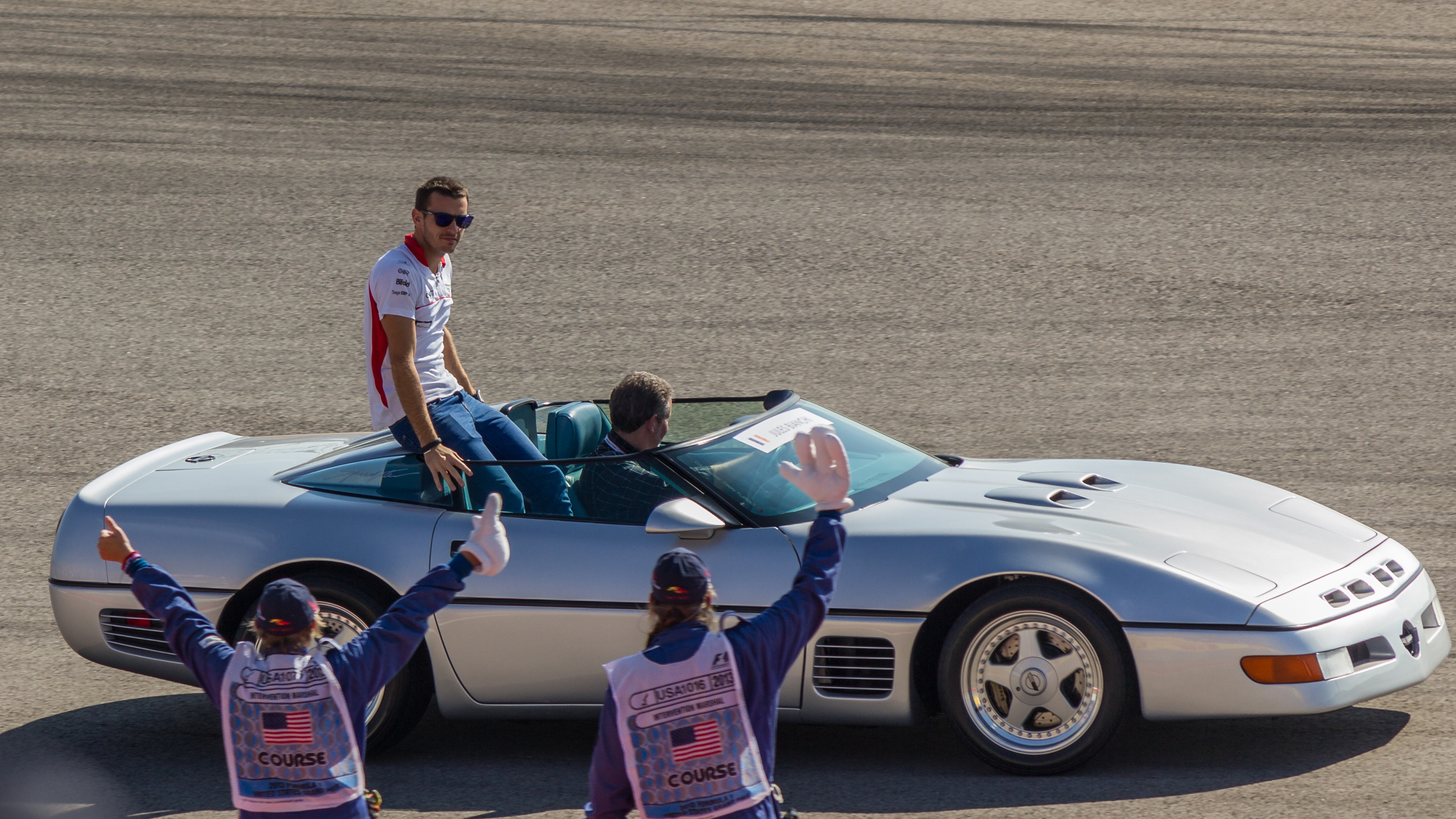 Jules Bianchi during the driver's parade, 2013 United States GP